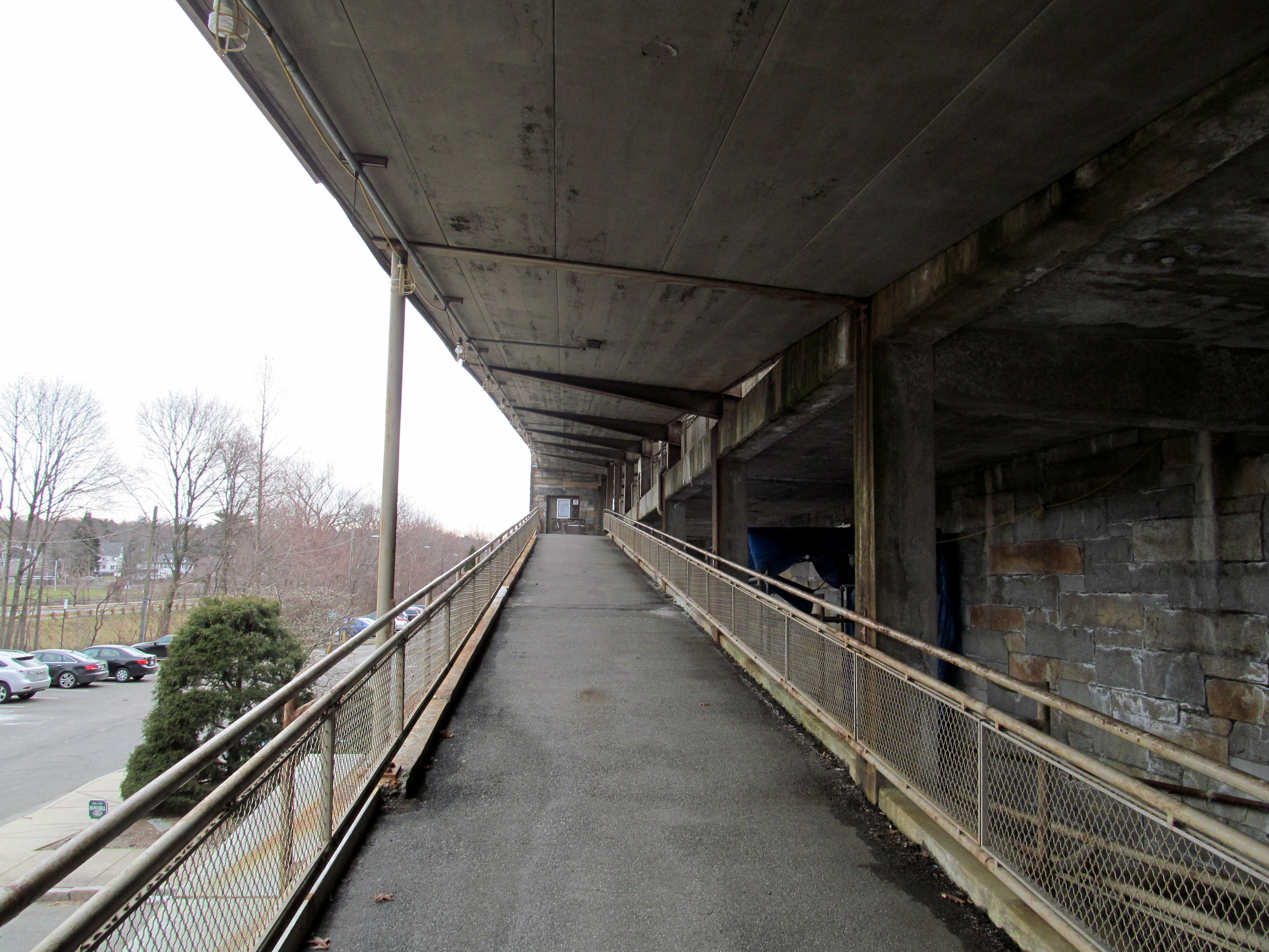 Outbound ramp at Winchester Center station